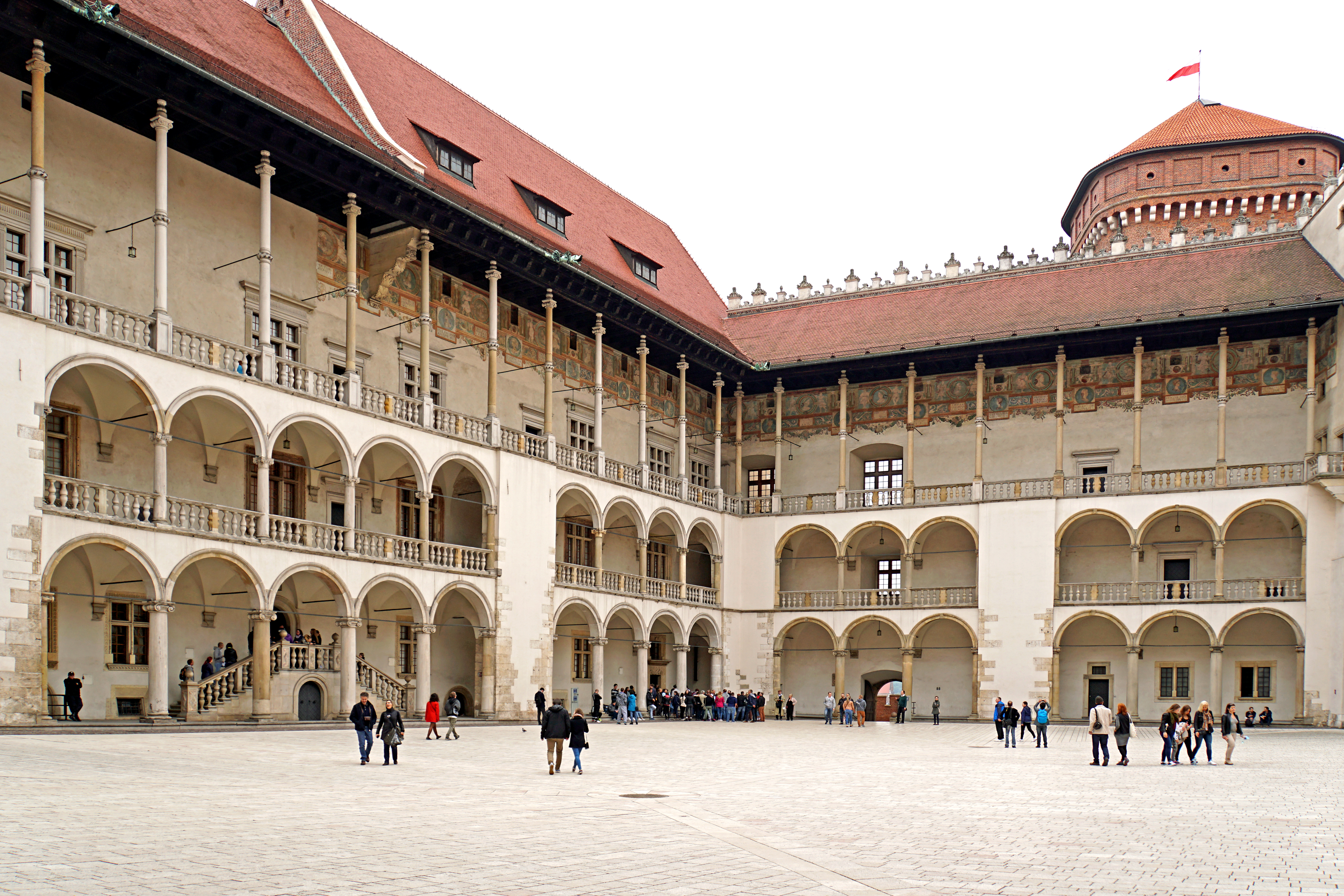 PLEASE, NO invitations or self promotions, THEY WILL BE DELETED. My photos are FREE to use, just give me credit and it would be nice if you let me know, thanks. The tiered arcades of Sigismund I Stary's Renaissance courtyard within Wawel Castle.